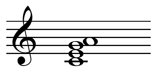 Add6 chord on C. Created by Hyacinth (talk) 19:05, 23 November 2010 using Sibelius 5. Compare with example of music notation image creation, originally for User:Hyacinth/Sibelius_how_to#Producing_images: File:Add6 chord on C letter .3.png